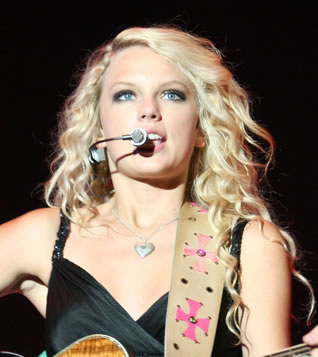 American country musician Taylor Swift performing live.